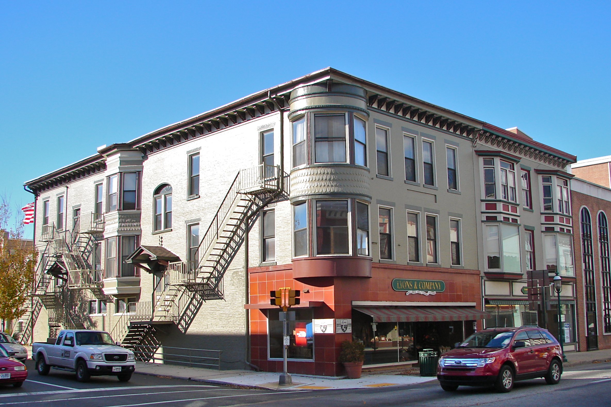 83 South Main Street, Chambersburg, Pennsylvania part of the Chambersburg Historic District on the NRHP since August 26, 1982. The Historic District is centered at U.S. Routes 11 and 30 in Chambersburg, aka "the Diamond". This building is a short block south at the SE corner of Queen (US 30 eastbound) and Main (US 11). Formerly used as Bloom Bros. Department Store, now a clothing store, Lyons & Co.